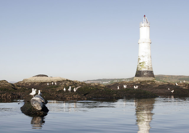 Seal and light beacon on the Gantock Rocks off Dunoon